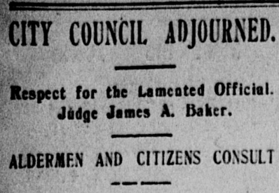 City Council adjourned after the death of Judge James A. Baker (1821-1897).